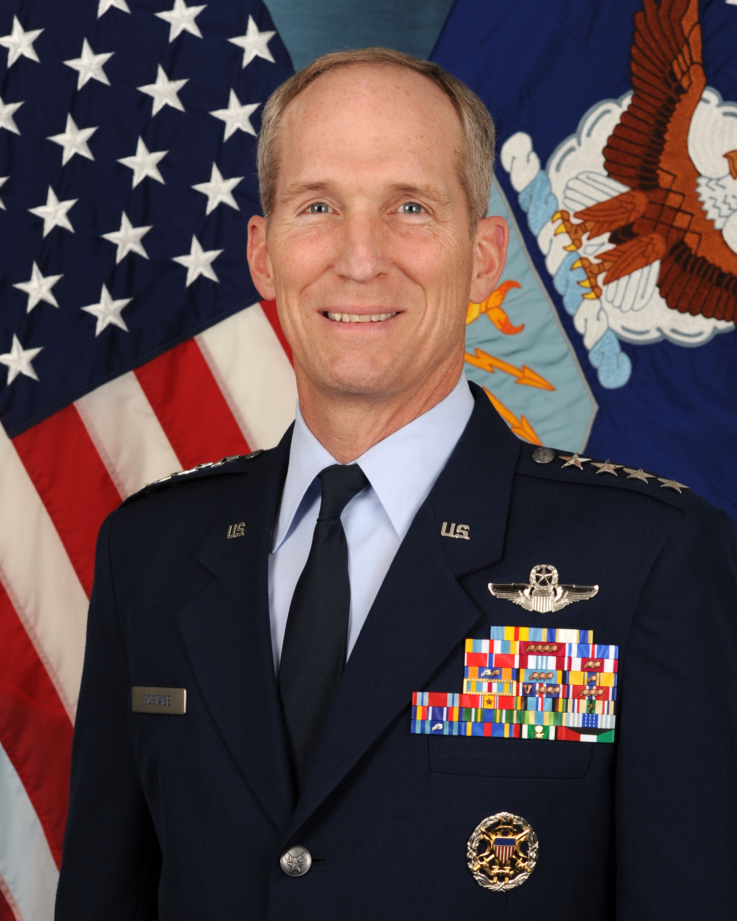 General Gilmary M. Hostage III, USAF Commander, Air Combat Command